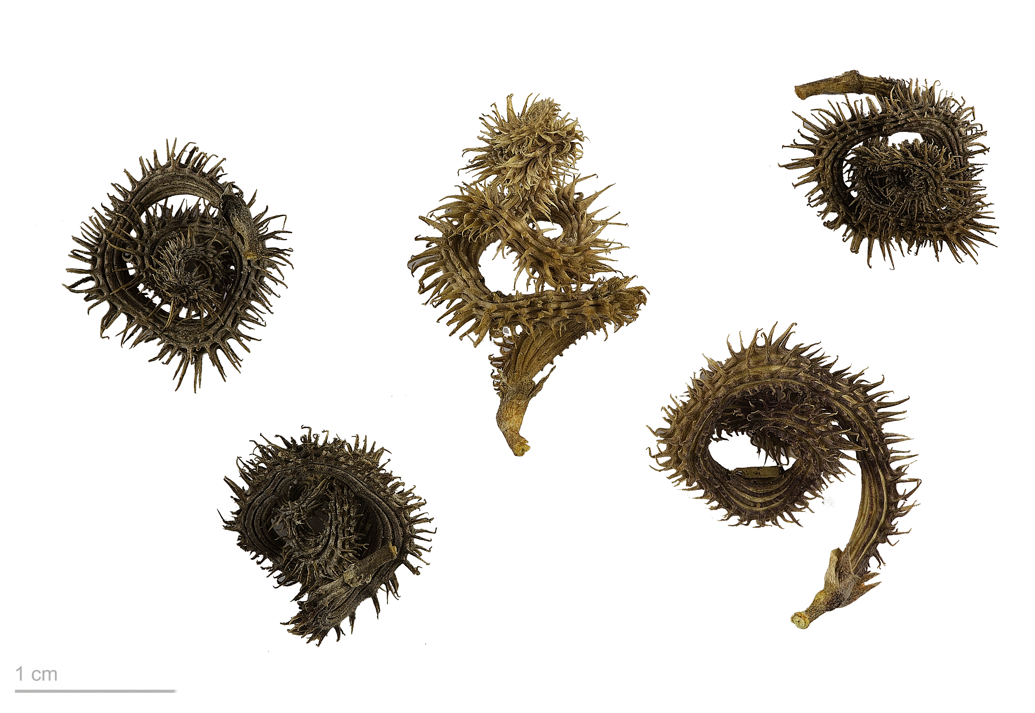 Caterpillar-plant, fruits and seeds